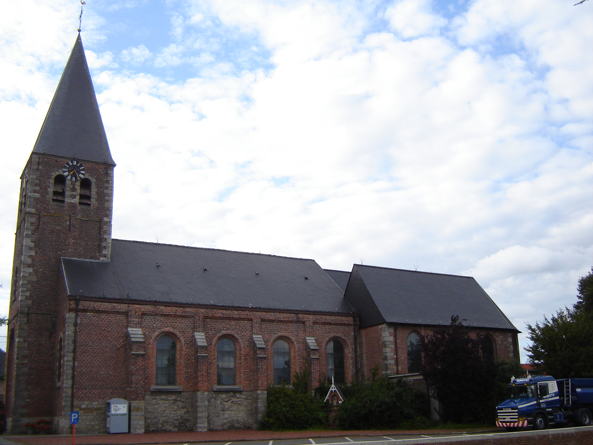 Church of the Assumption of Mary, in Heestert, Zwevegem, West Flanders, Belgium.